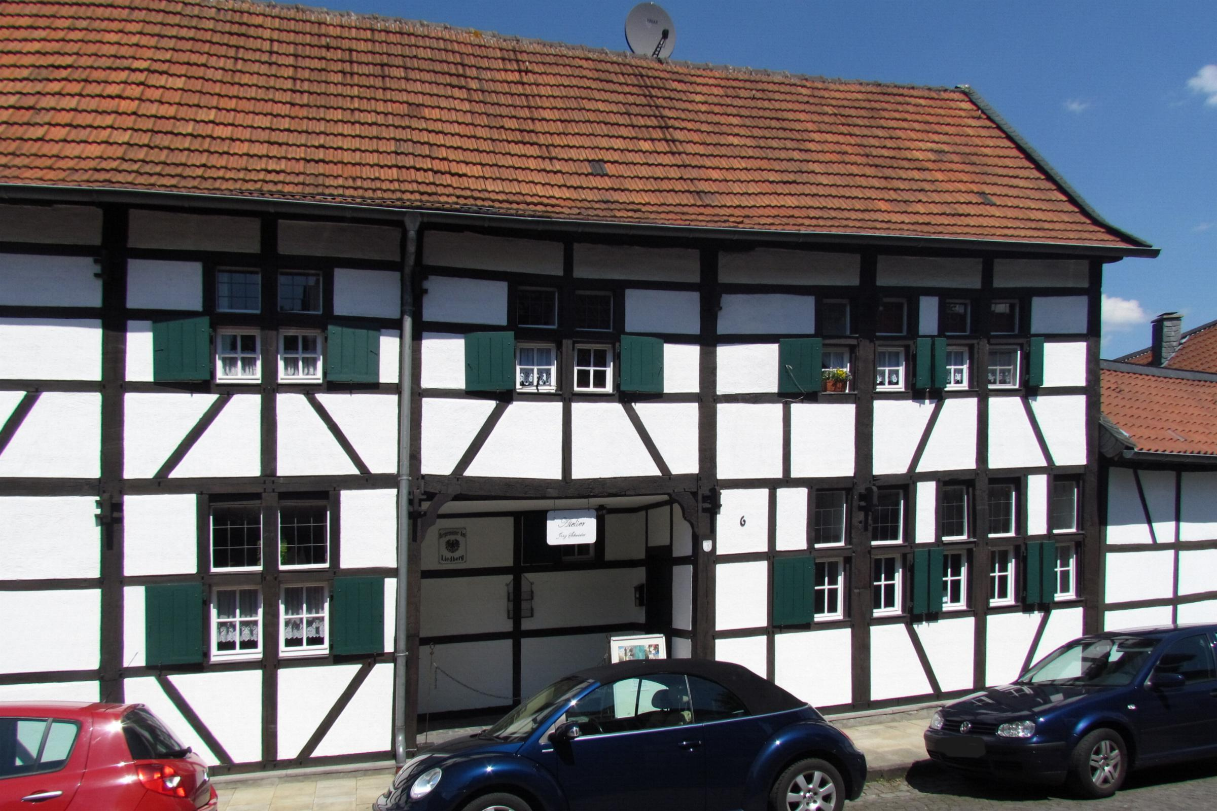 This is a photograph of an architectural monument.It is on the list of cultural monuments of Korschenbroich